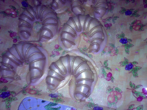 homemade pastries